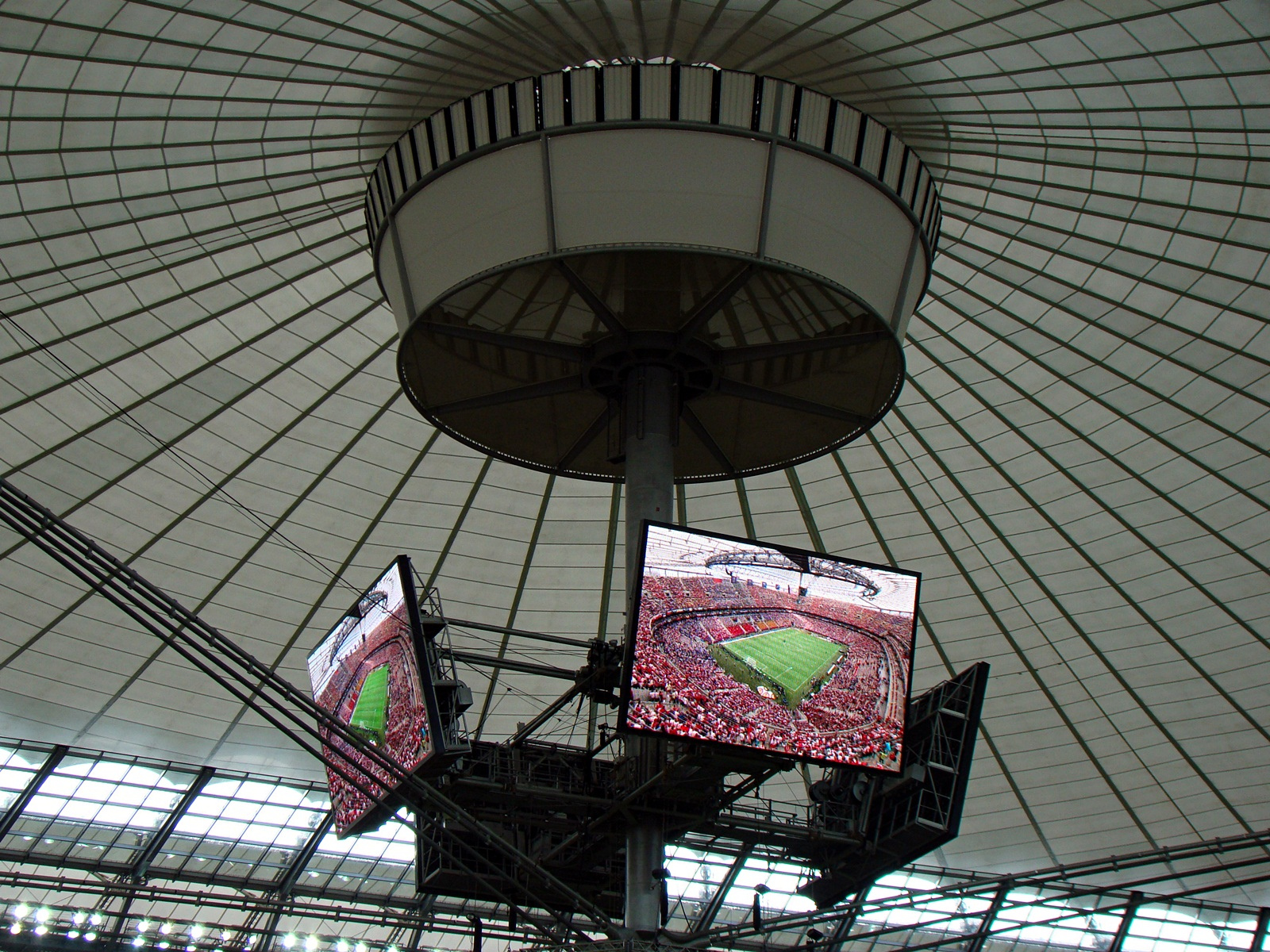 UEFA Euro 2012 opening match between Poland and Greece.